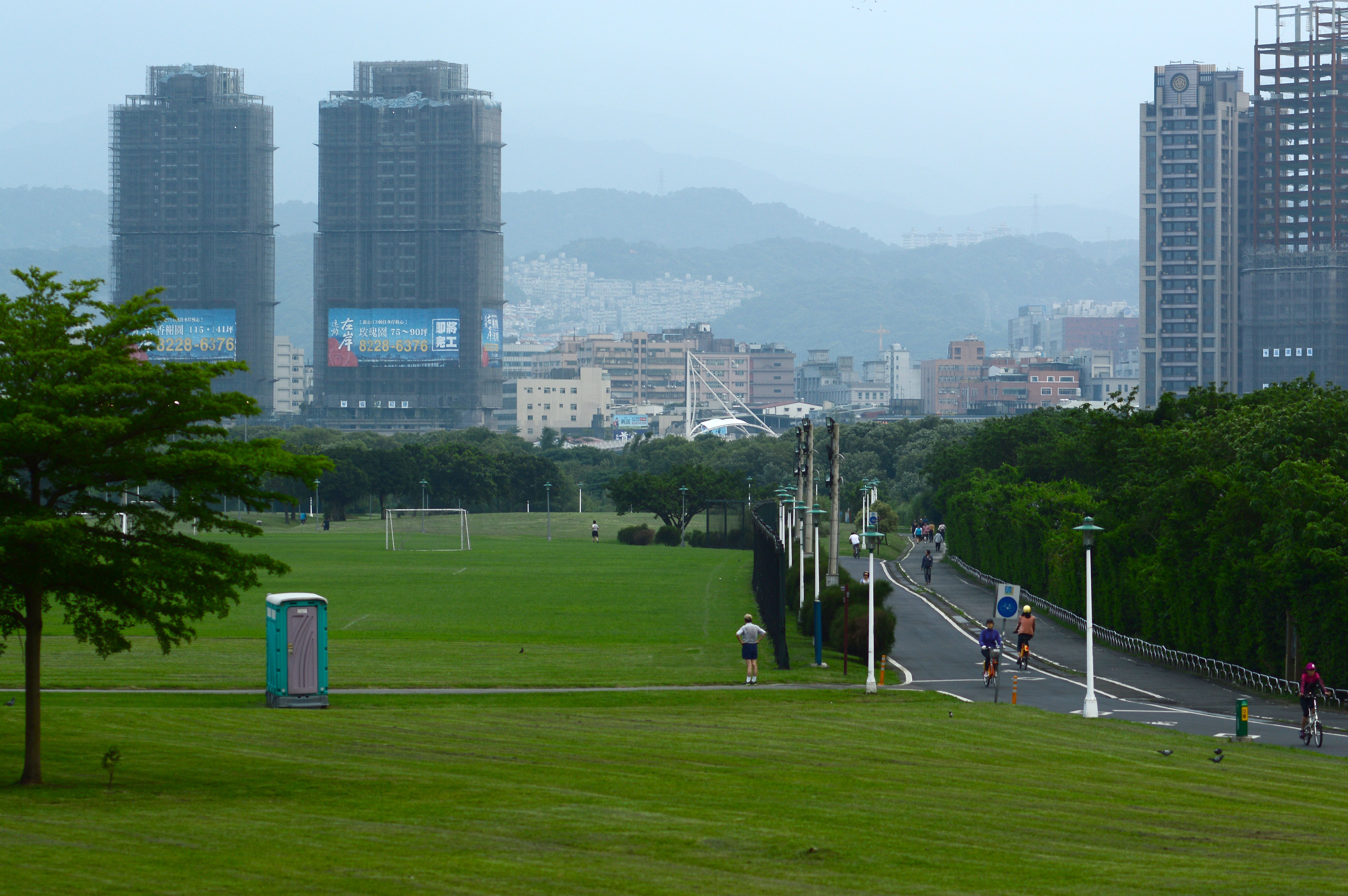 Guting Riverside Park